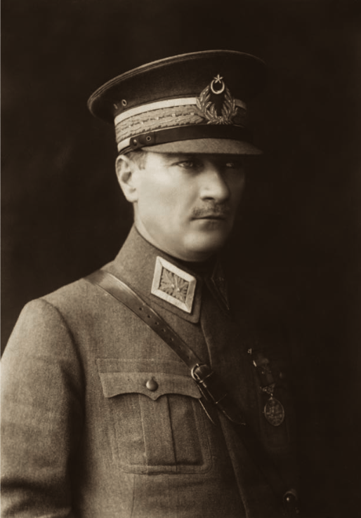 Kemal Atatürk (or alternatively written as Kamâl Atatürk, Mustafa Kemal Pasha until 1934, commonly referred to as Mustafa Kemal Atatürk; 1881 – 10 November 1938) was a Turkish field marshal, revolutionary statesman, author, and the founding father of the Republic of Turkey, serving as its first President from 1923 until his death in 1938. He undertook sweeping progressive reforms, which modernized Turkey into a secular, industrial nation. Ideologically a secularist and nationalist, his policies and theories became known as Kemalism. Due to his military and political accomplishments, Atatürk is regarded as one of the most important political leaders of the 20th century.